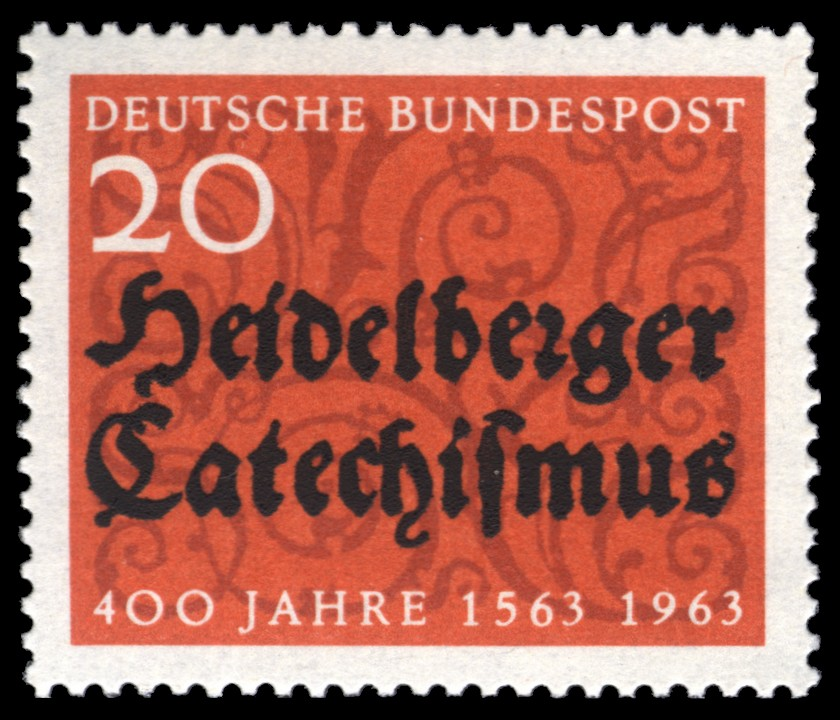 Stamp description: 400 years of Heidelberg catechism 1963